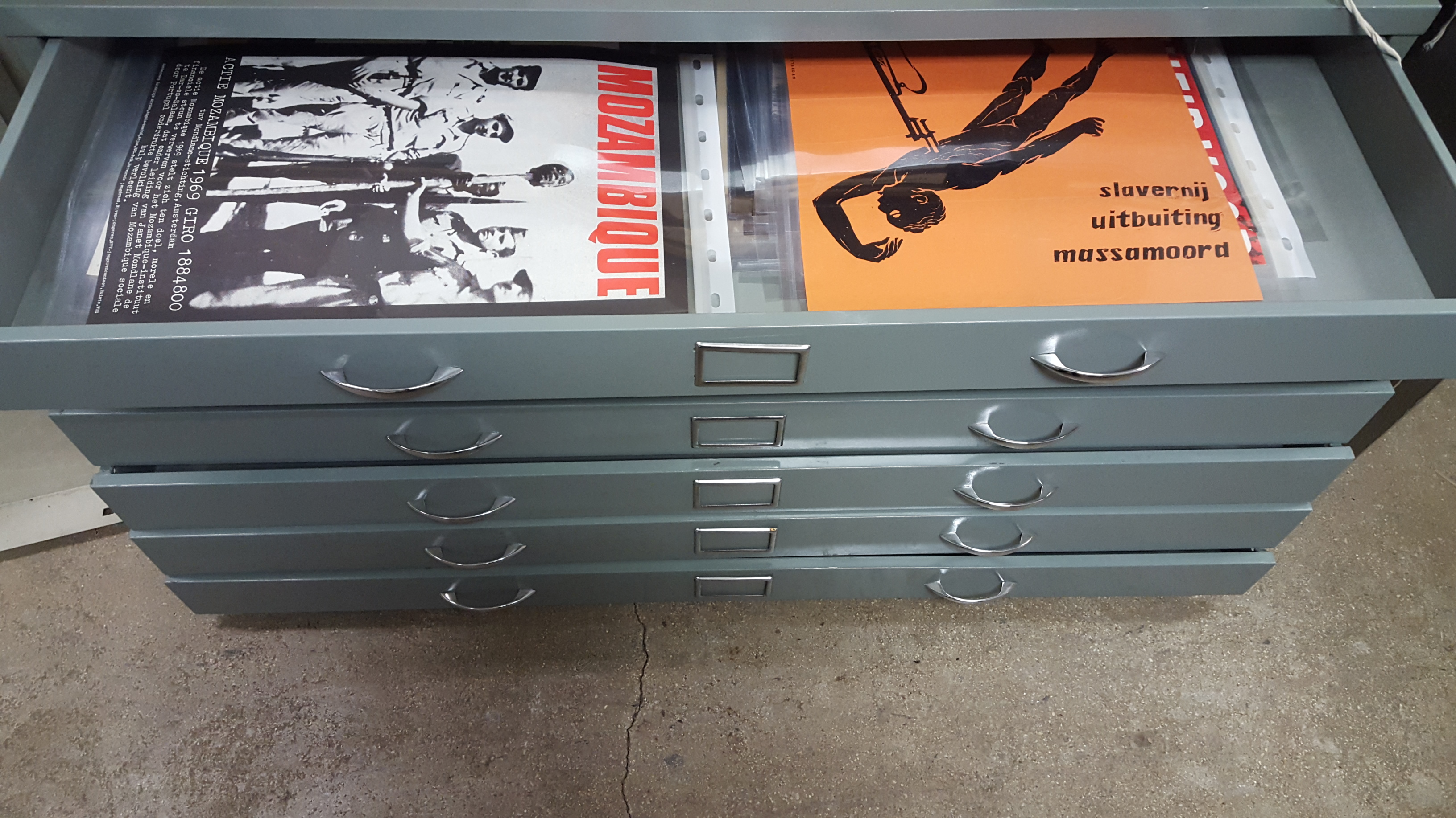 Poster Collection Storage, South African History Archive Johannesburg, June 2016